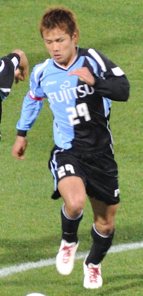 Hiroyuki Taniguchi and others